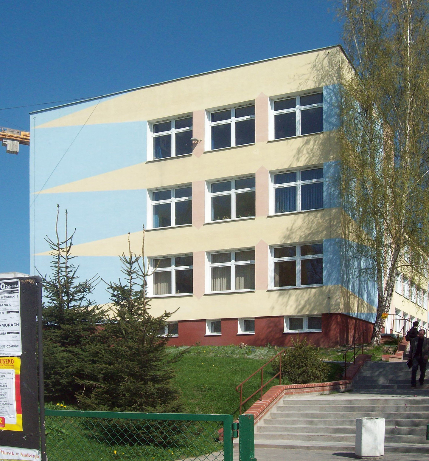 Elementary School nr 3 in Kłodzko, main building